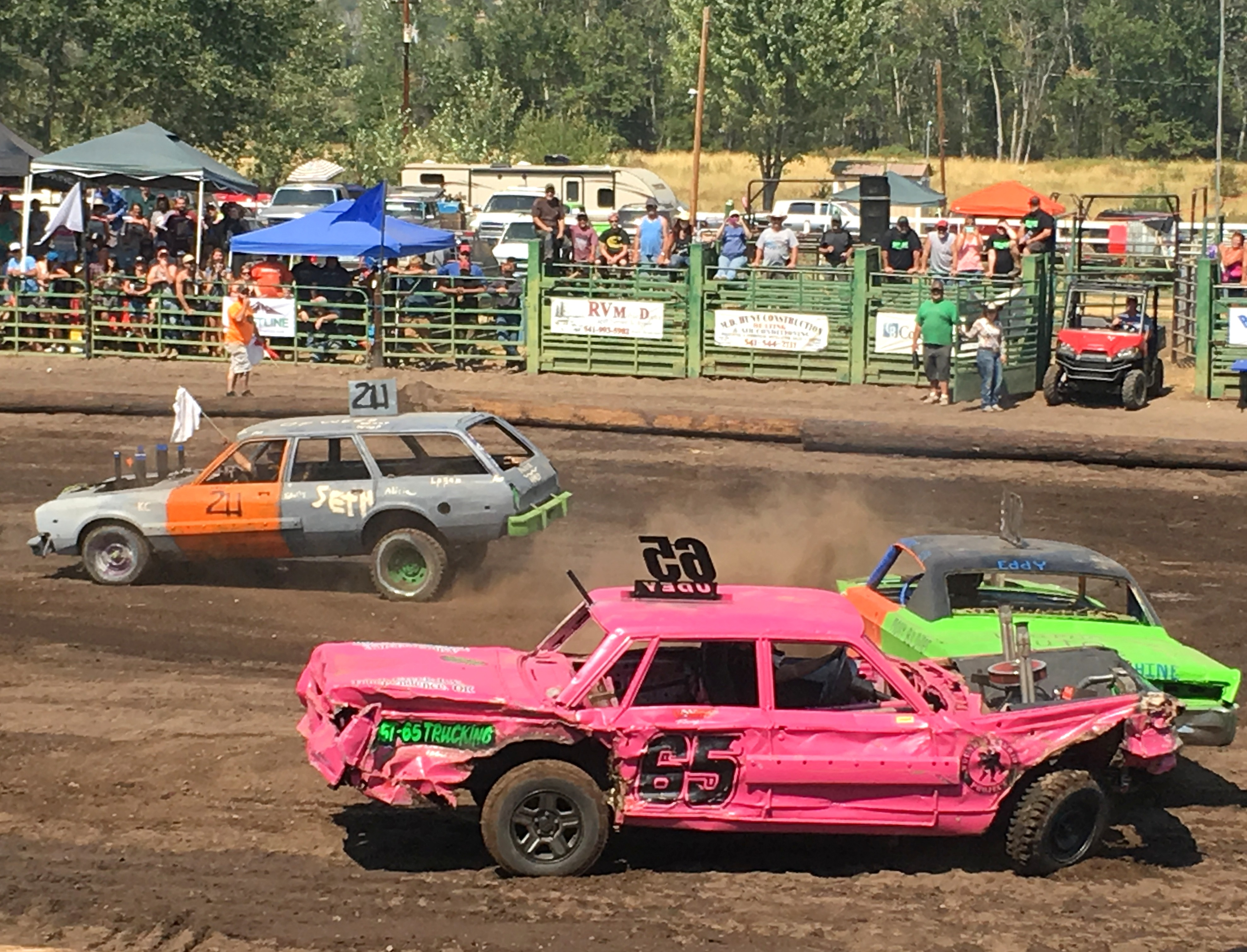 Demolition derby at the 2017 Wasco County Fair, Tygh Valley, Oregon, United States.